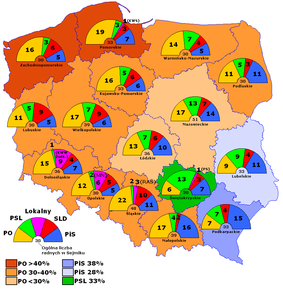 Polish local elections, 2010 - Results of the elections to the Voivodship councils